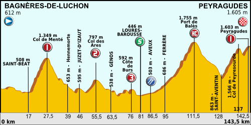 Profile of the 17th stage of the Tour de France 2012